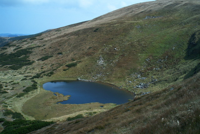 Niesamowite lake in Czarnohora Mountains